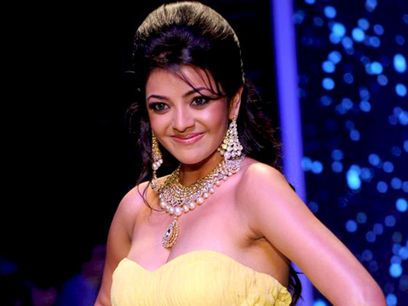 Kajal Aggarwal walks the ramp for CVM Exports at IIJW 2011